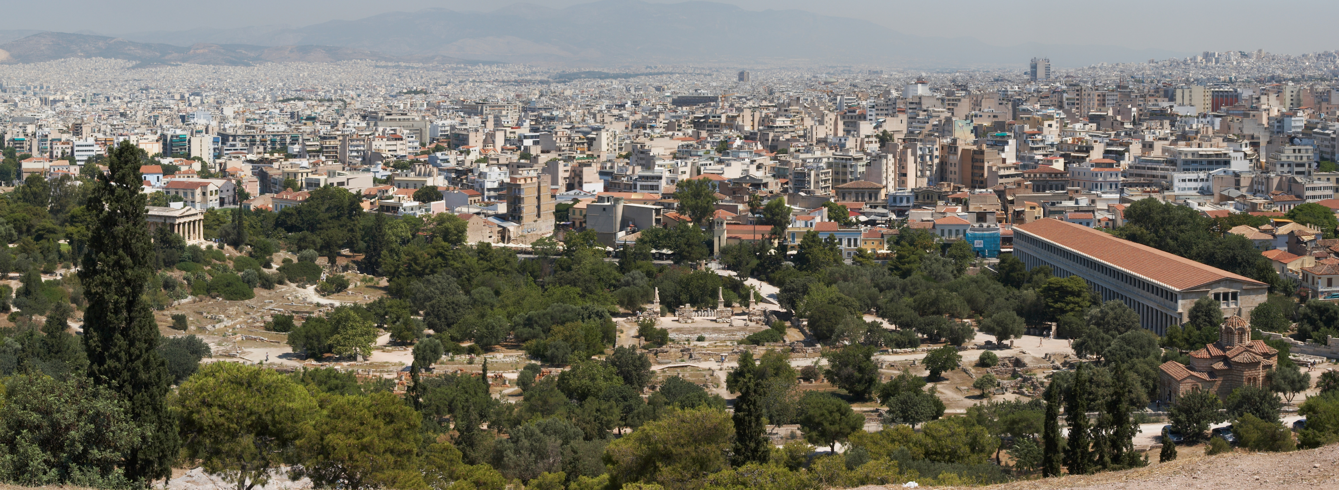 Ancient Agora, Athens, Greece.